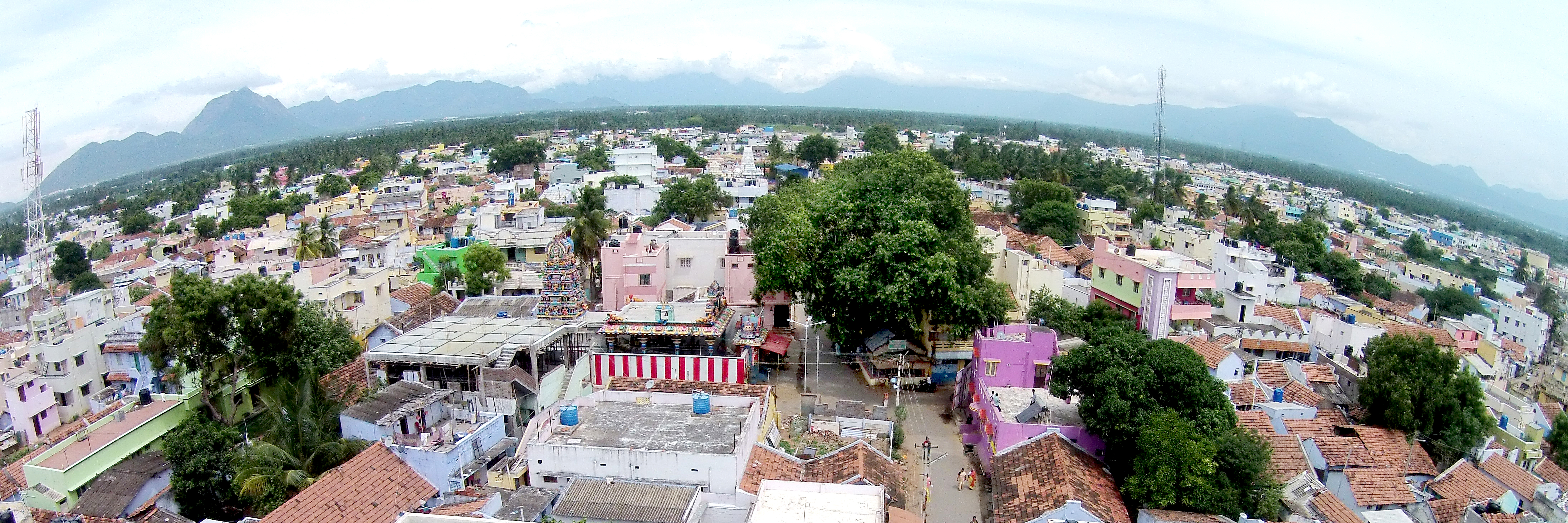 குனியமுத்தூர் துரை வேலுமணி